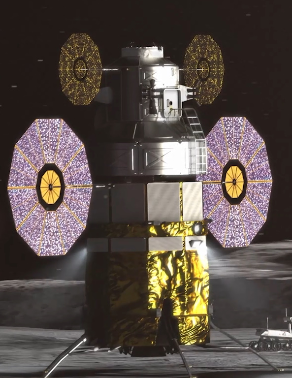 a render of a stand-in human landing system for the Artemis Program. This render exists so that NASA can have a placeholder render before they pick the final HLS design